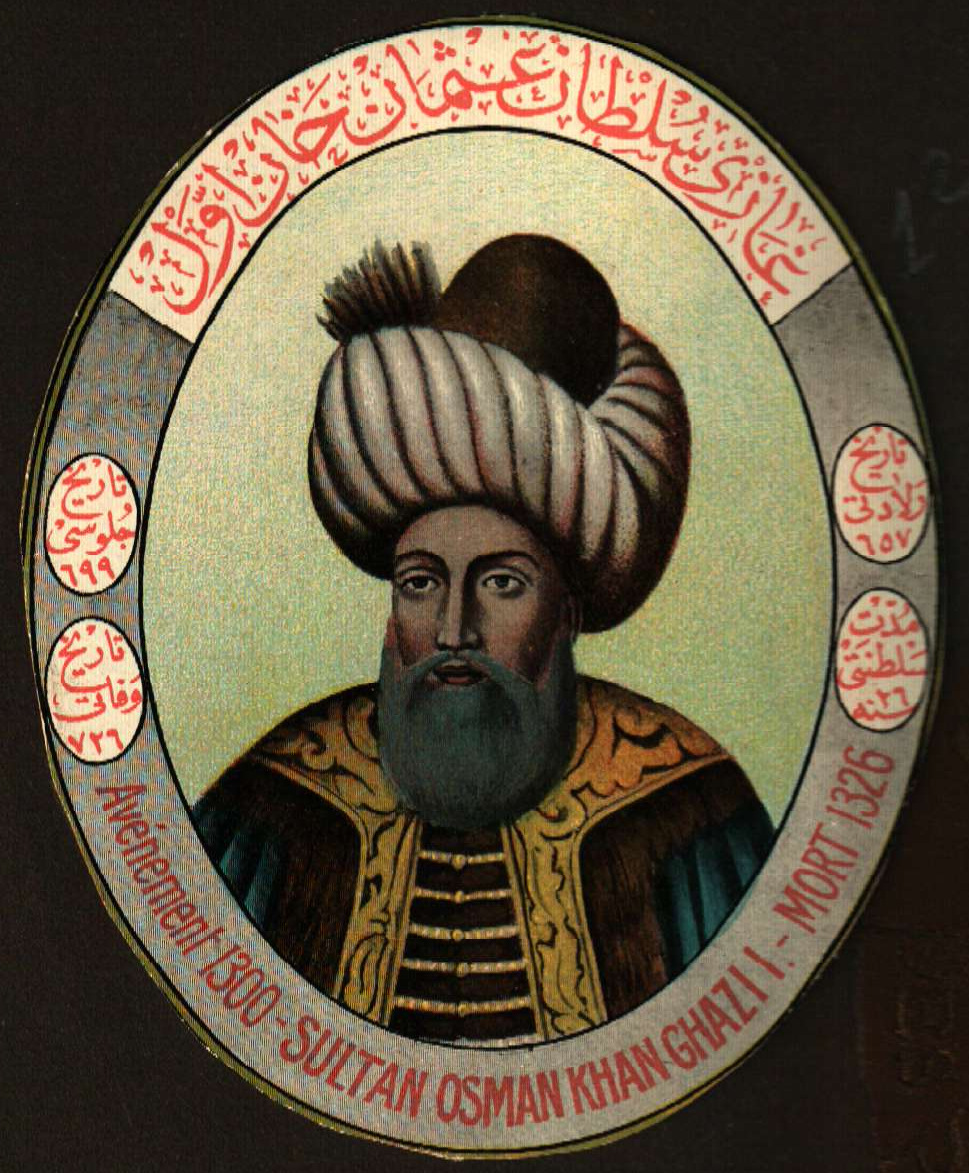 Osman I